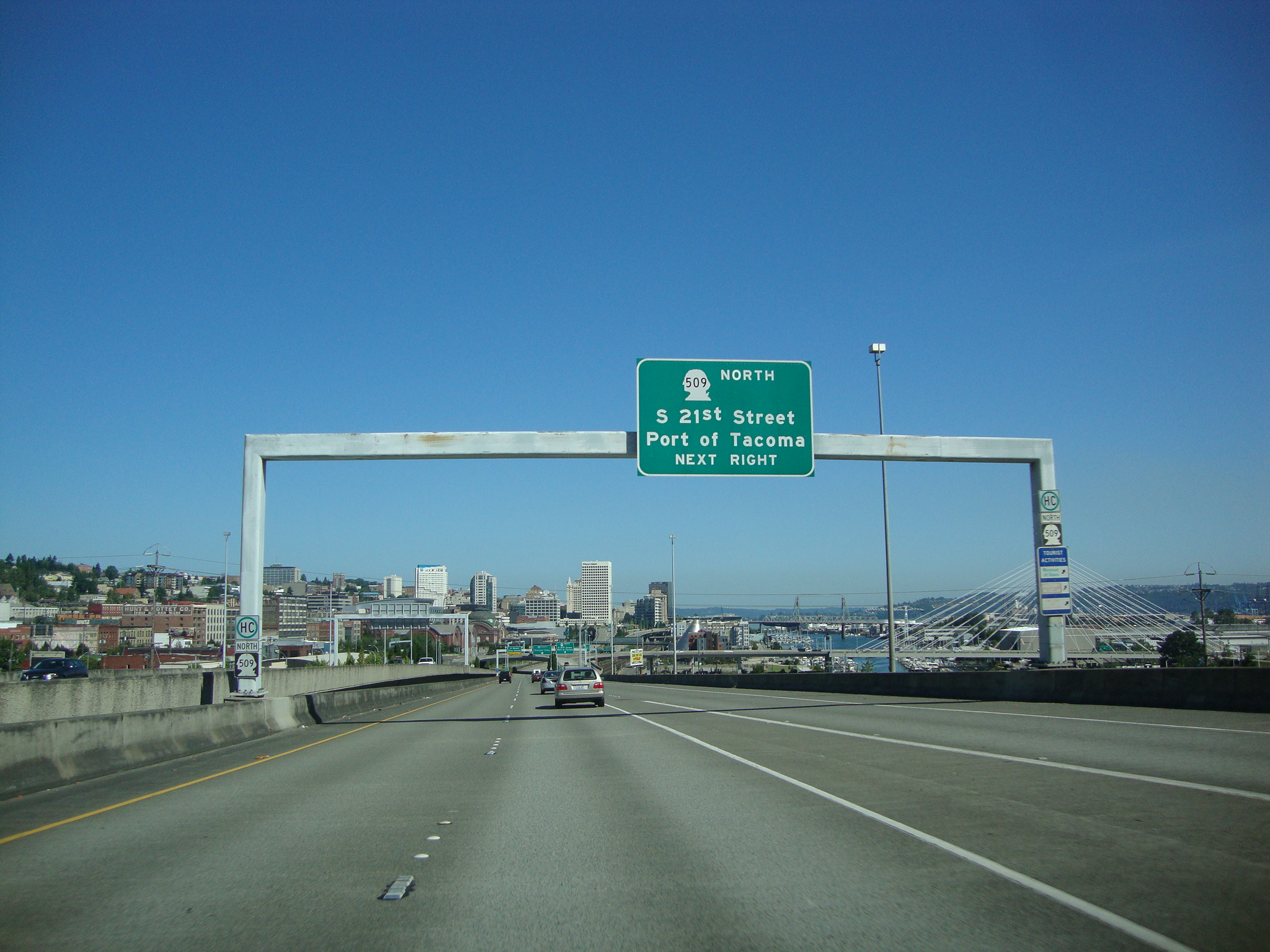 Interstate 705 northbound approaching WA 509 North/S 21st Street in Tacoma, Washington.